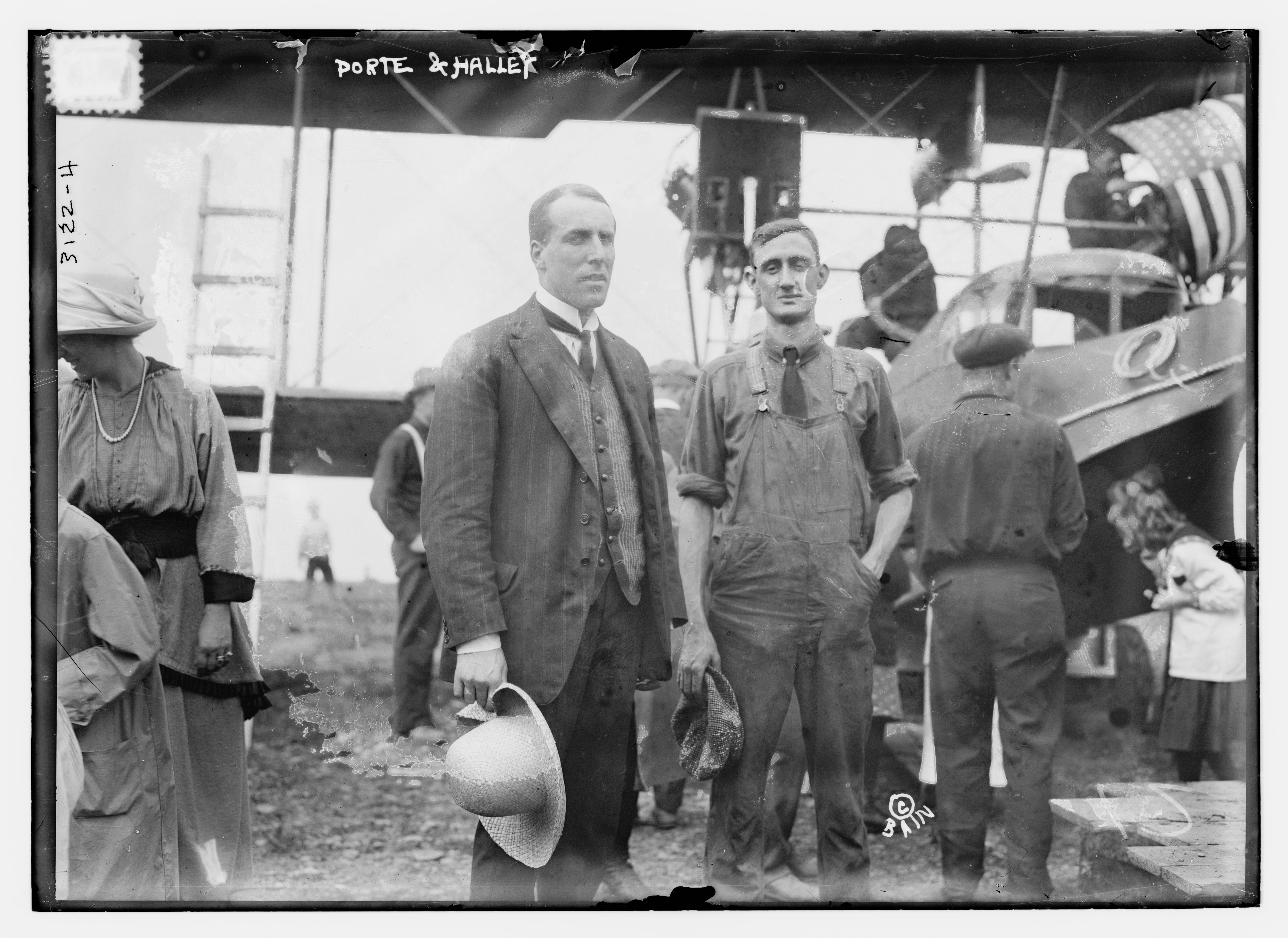 John Cyril Porte and George Eustace Amyot Hallett in Hammondsport, New York on 22 June 1914 for the naming ceremony for Wanamaker's America. Bain News Service,, publisher. [between ca. 1910 and ca. 1915] 1 negative : glass ; 5 x 7 in. or smaller. Notes: Title from unverified data provided by the Bain News Service on the negatives or caption cards. Forms part of: George Grantham Bain Collection (Library of Congress). Format: Glass negatives. Repository: Library of Congress, Prints and Photographs Division, Washington, D.C. 20540 USA, General information about the Bain Collection is available at Persistent URL: Call Number: LC-B2- 3122-4